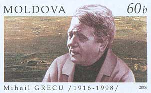 Stamp of Moldova